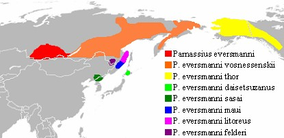 A range map showing the distribution of Eversmann's Parnassian (Parnassius eversmanni) and its subspecies.